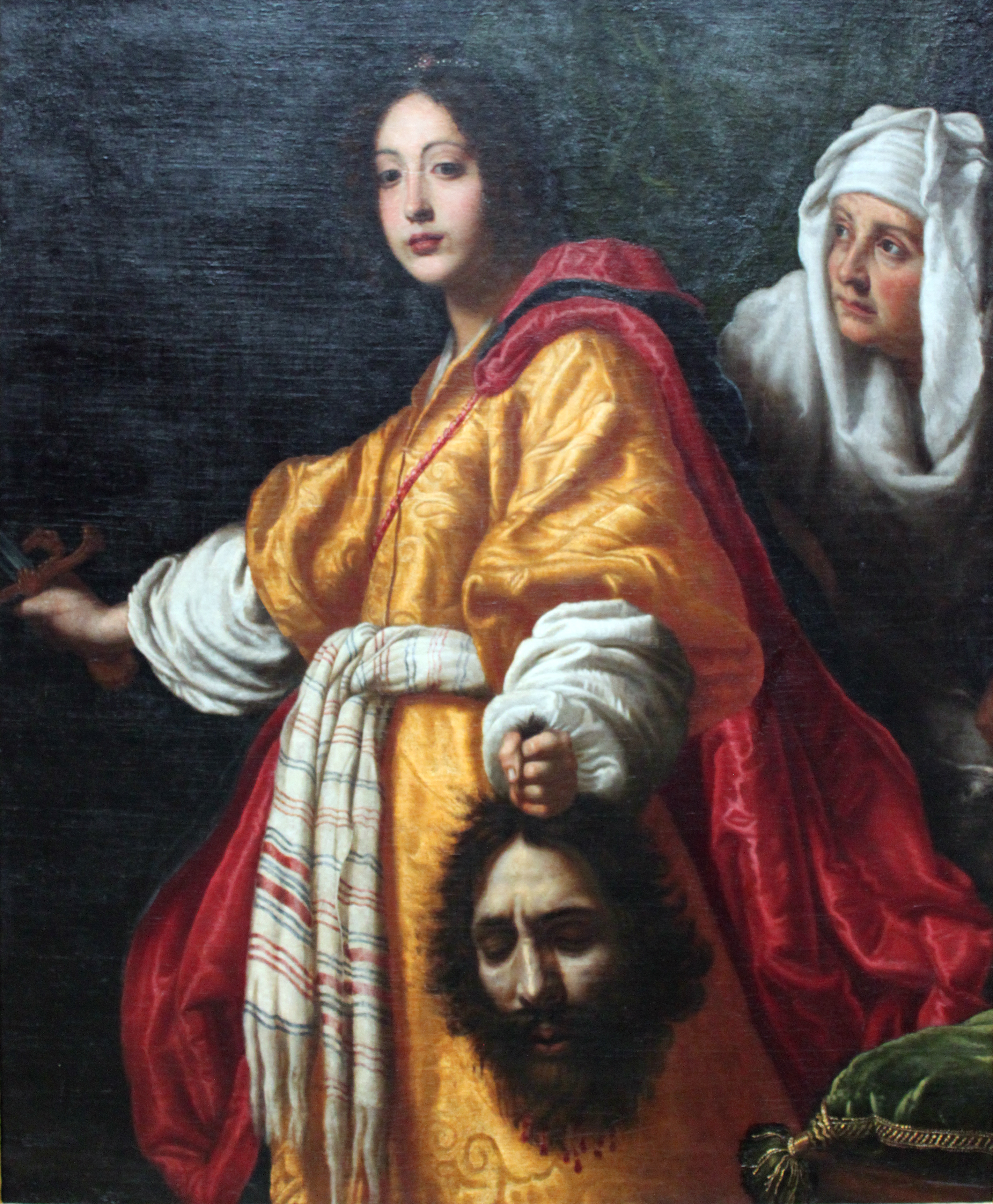 Judith and her maid Abra with the Head of Holofernes